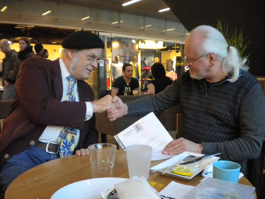 The Birgit Ridderstedt Estate (her 2 sons) signs an agreement to let the CabarEng Organization properly register and publish her songsPlace: Södermalm, Stockholm, Sweden